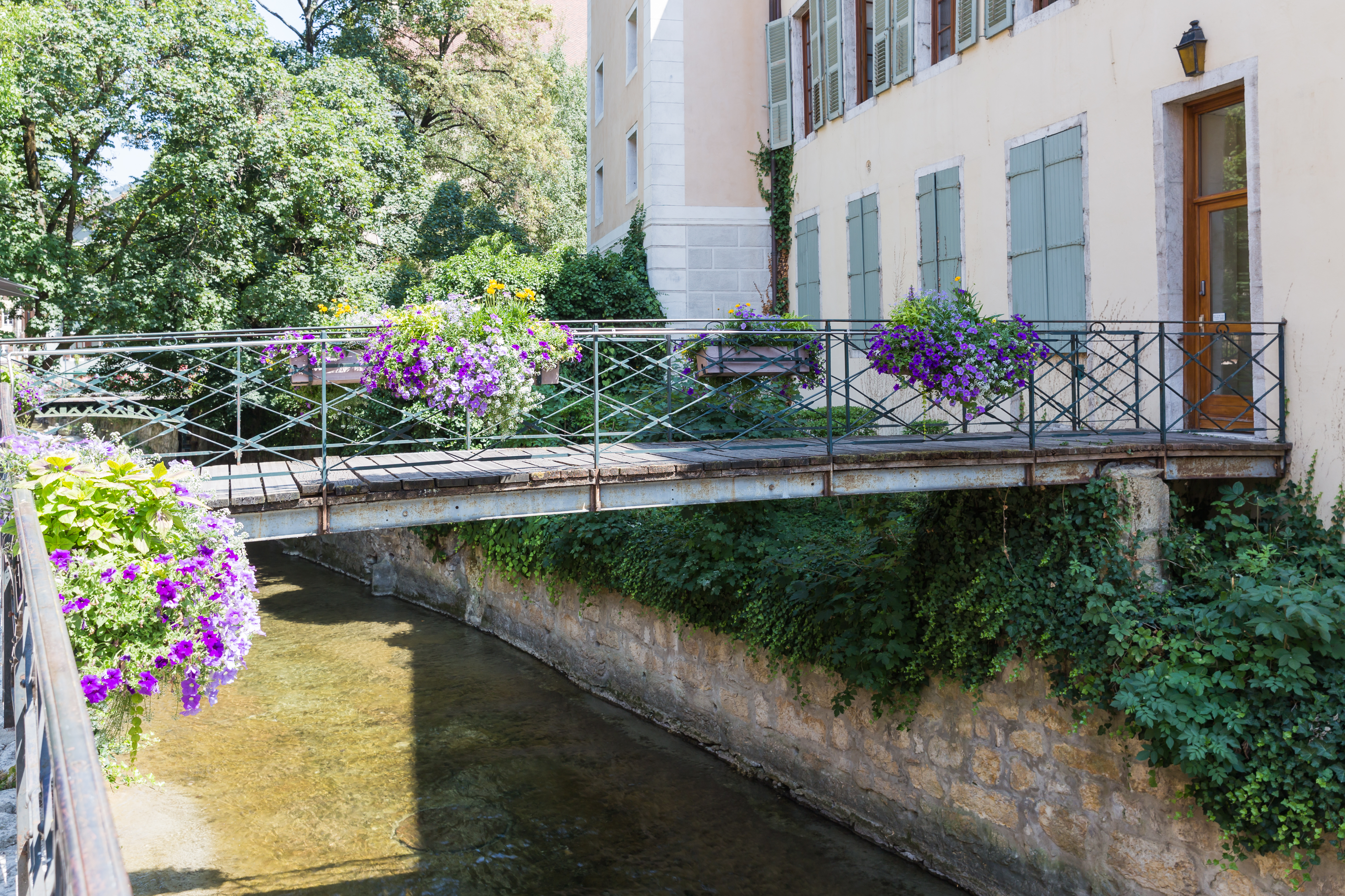 Bridge over the Thiou in Annecy, France